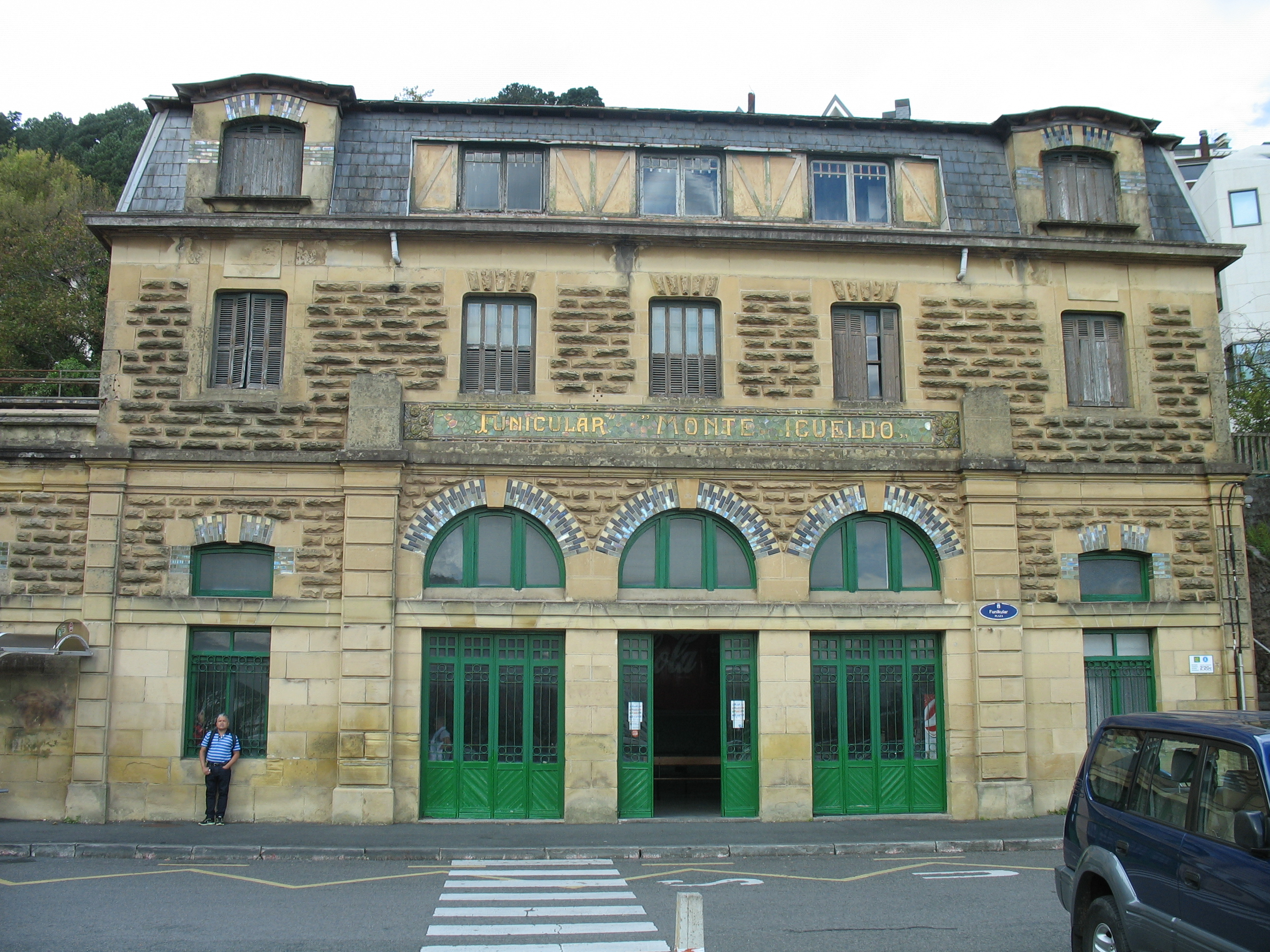 Exterior of base station of the Igeldo (Igueldo) funicular in Donostia (San Sebastián)